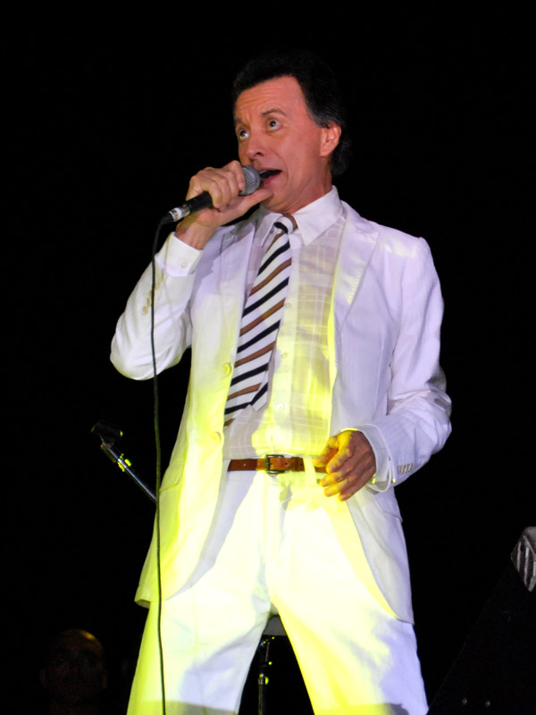 De blanco, impecable, Palito trajo un repertorio que nos remontó a nuestra niñéz. La nueva ola no está tan vieja.